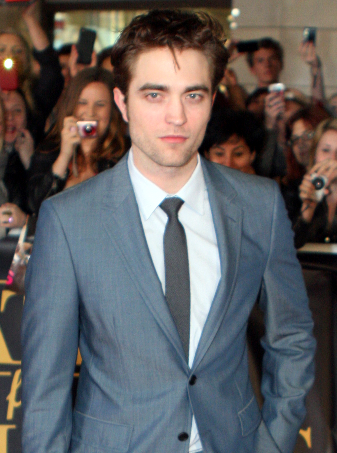 Robert Pattinson at the Water for Elephants Premiere 2011.